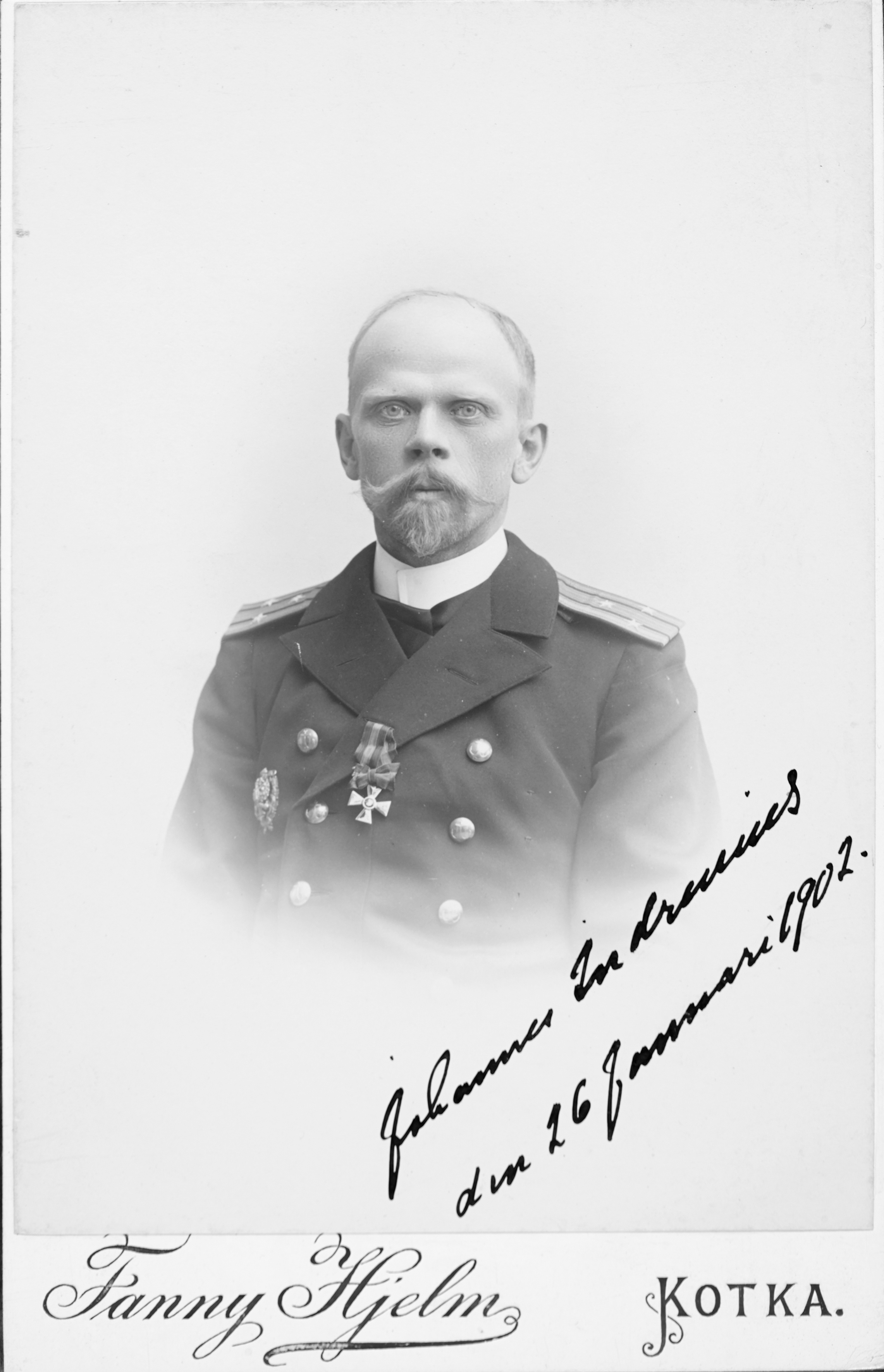 Signed photograph of the Finnish naval officer Johannes Indrenius (1859–1919).